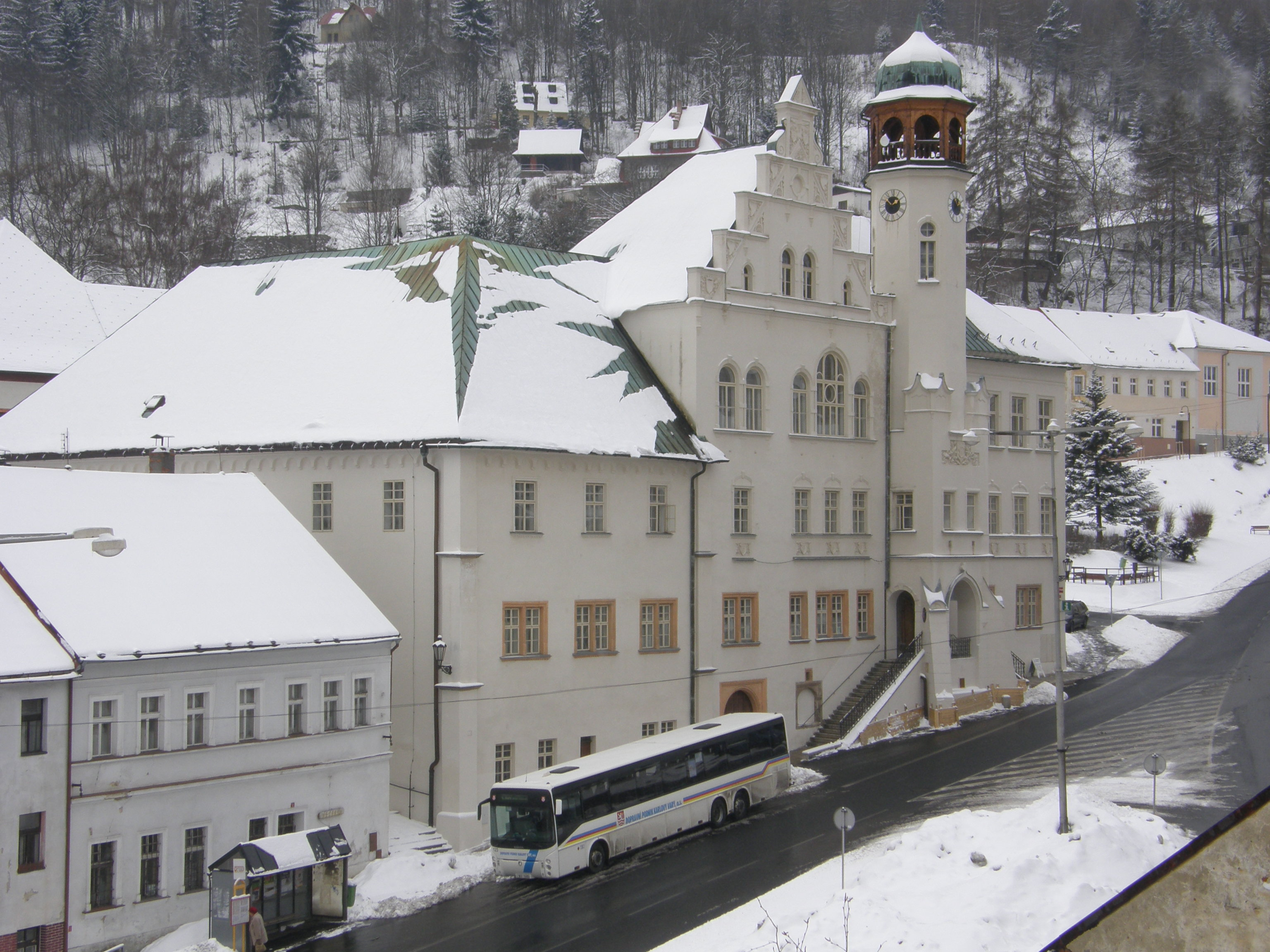 Town hall in upper part of square in Jáchymov. distr. Karlovy Vary, Czech Republic